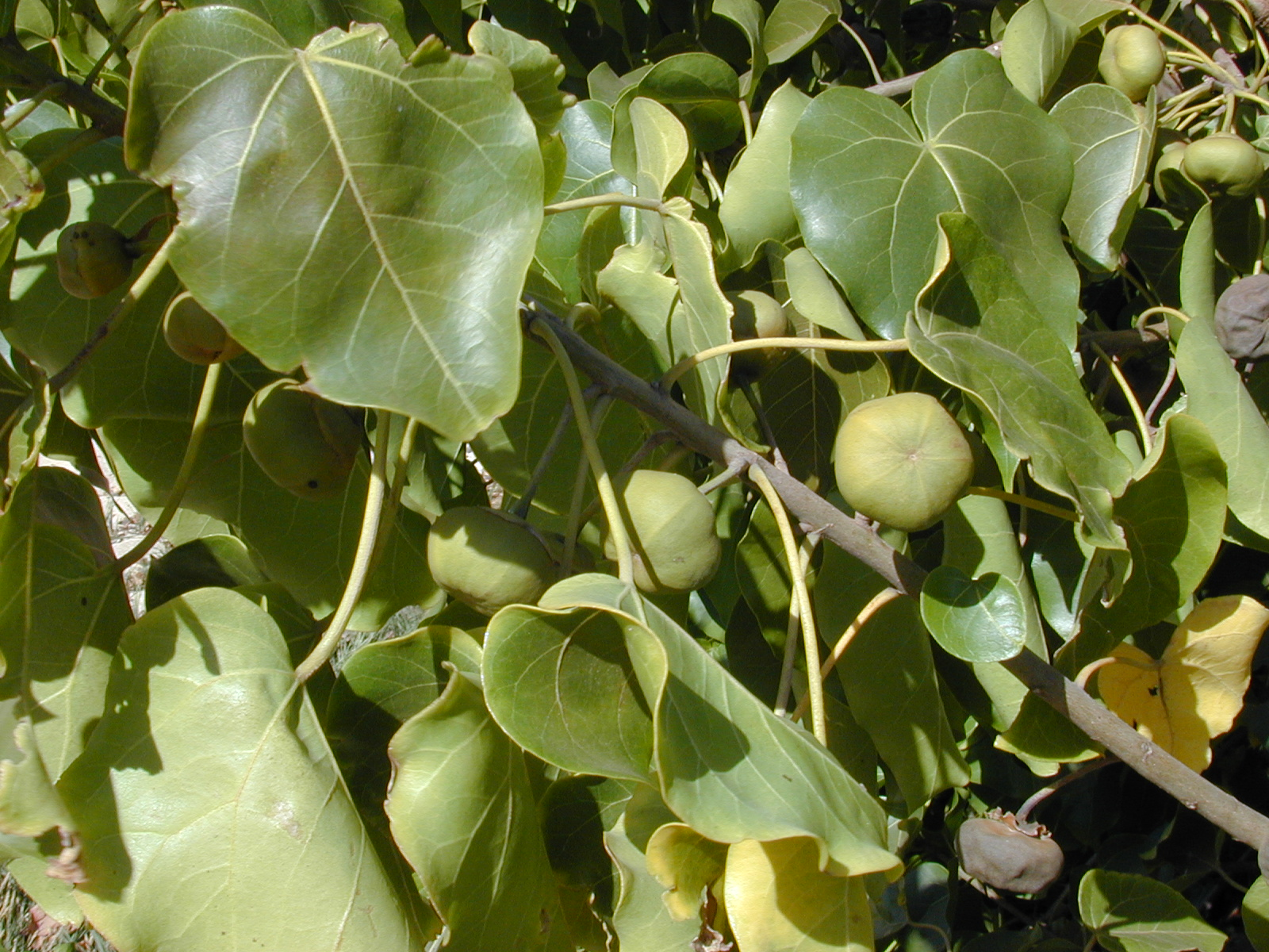 Thespesia populnea (fruits and leaves). Location: Maui, Kanaha Beach